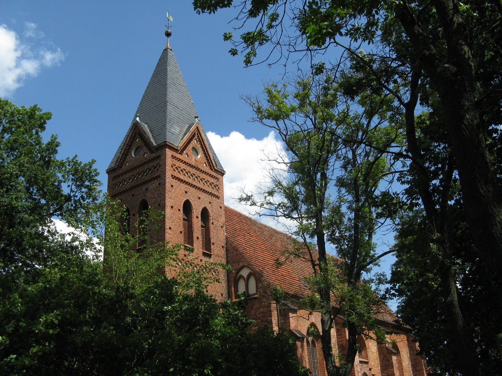 Church in Linstow, district Rostock, Mecklenburg-Vorpommern, Germany